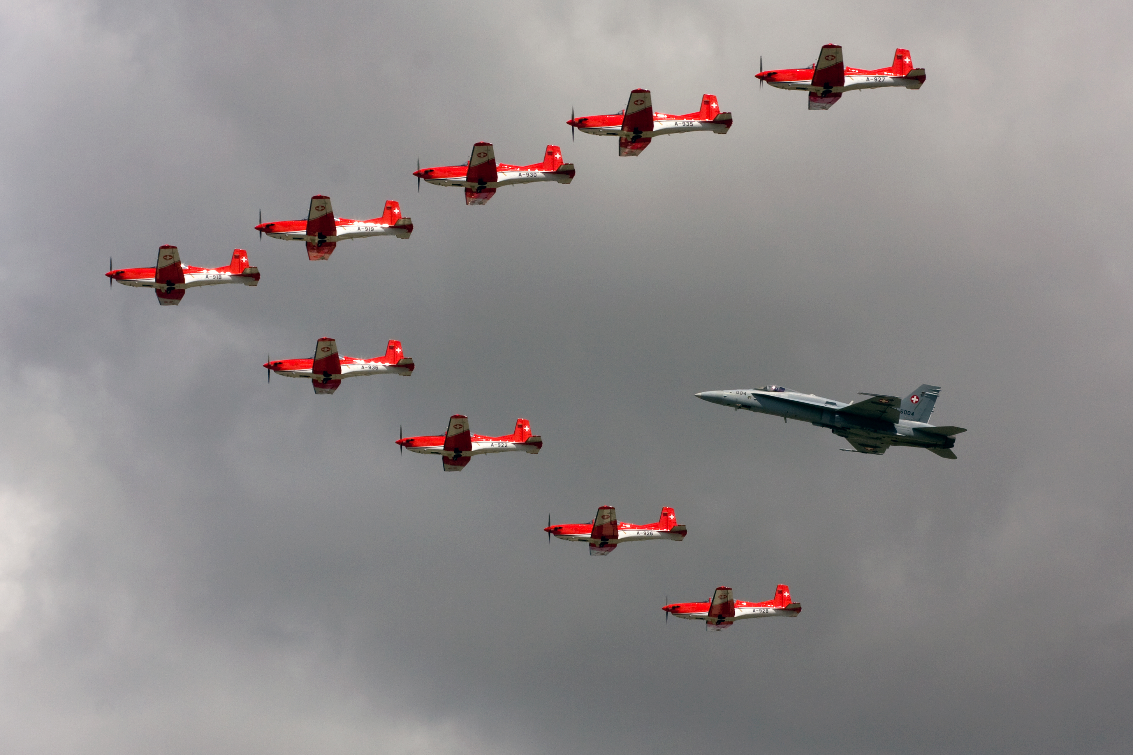 Swiss PC-7 Team and FA-18C Hornet